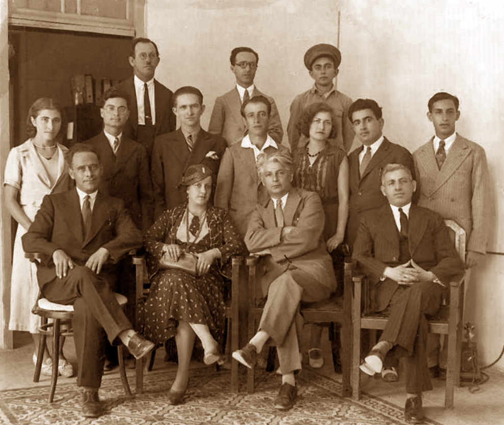 Doar Hayom newspaper's staff: Lady in front is Leah Abushdid, wife of Itamar Ben Avi, sitting on her left. On her right is journalist Uri Keisari